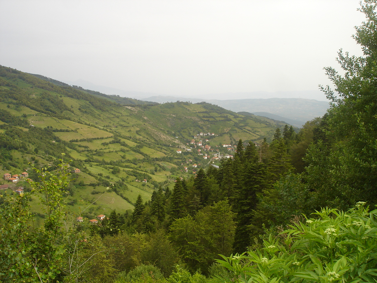 village of Crn Vrv, near Skopje, Macedonia